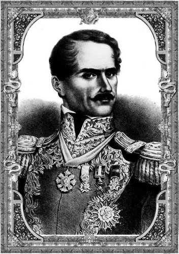 Self-portrait of Antonio López de Santa Anna, Lithograph (1870-1907).